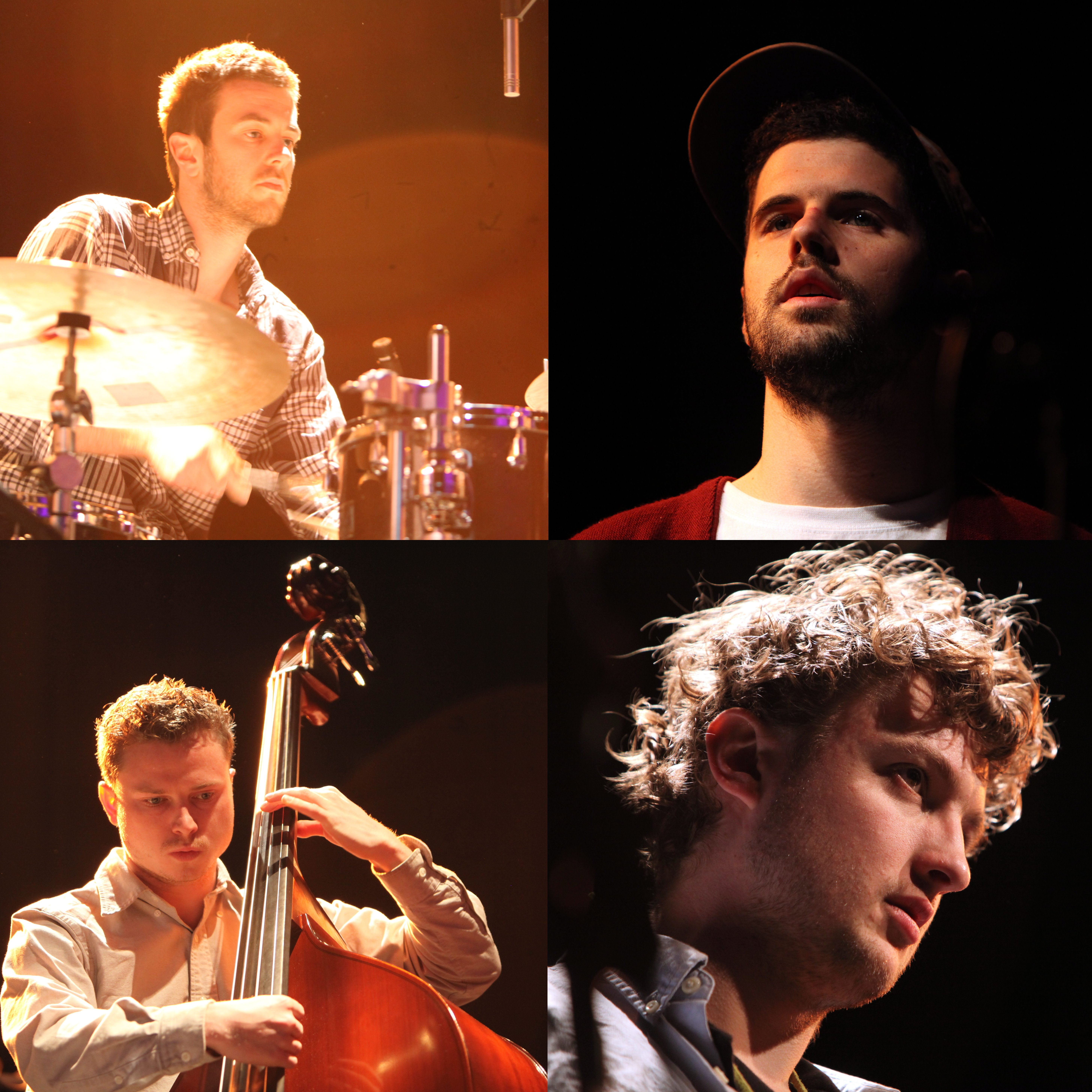 The Portico Quartet playing at Cully Jazz Festival 2011. Clockwise from top left: Duncan Bellamy (drums), Nick Mulvey (hang), Jack Wyllie (saxophone) and Milo Fitzpatrick (contrabass).